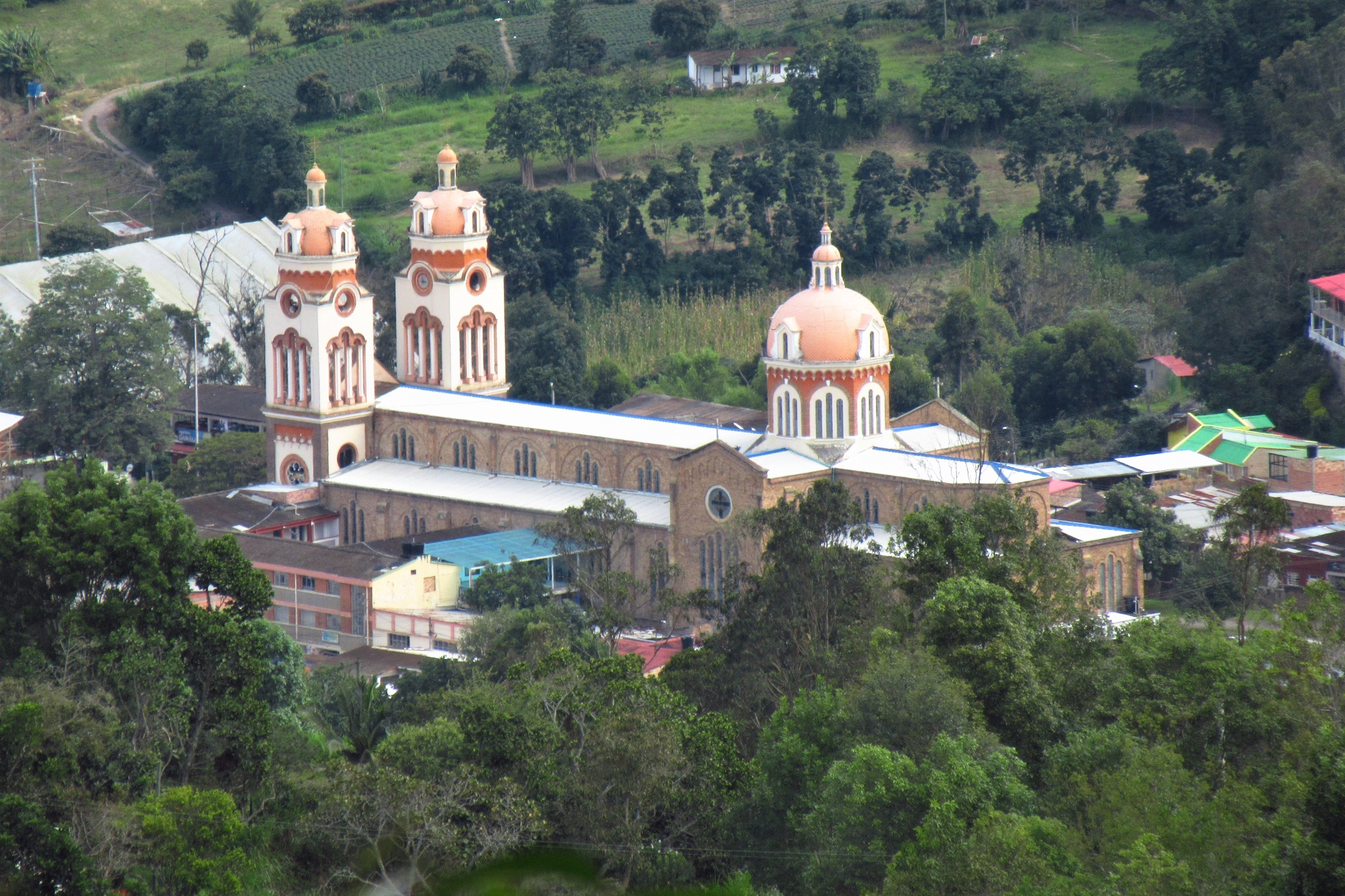 Ubaque